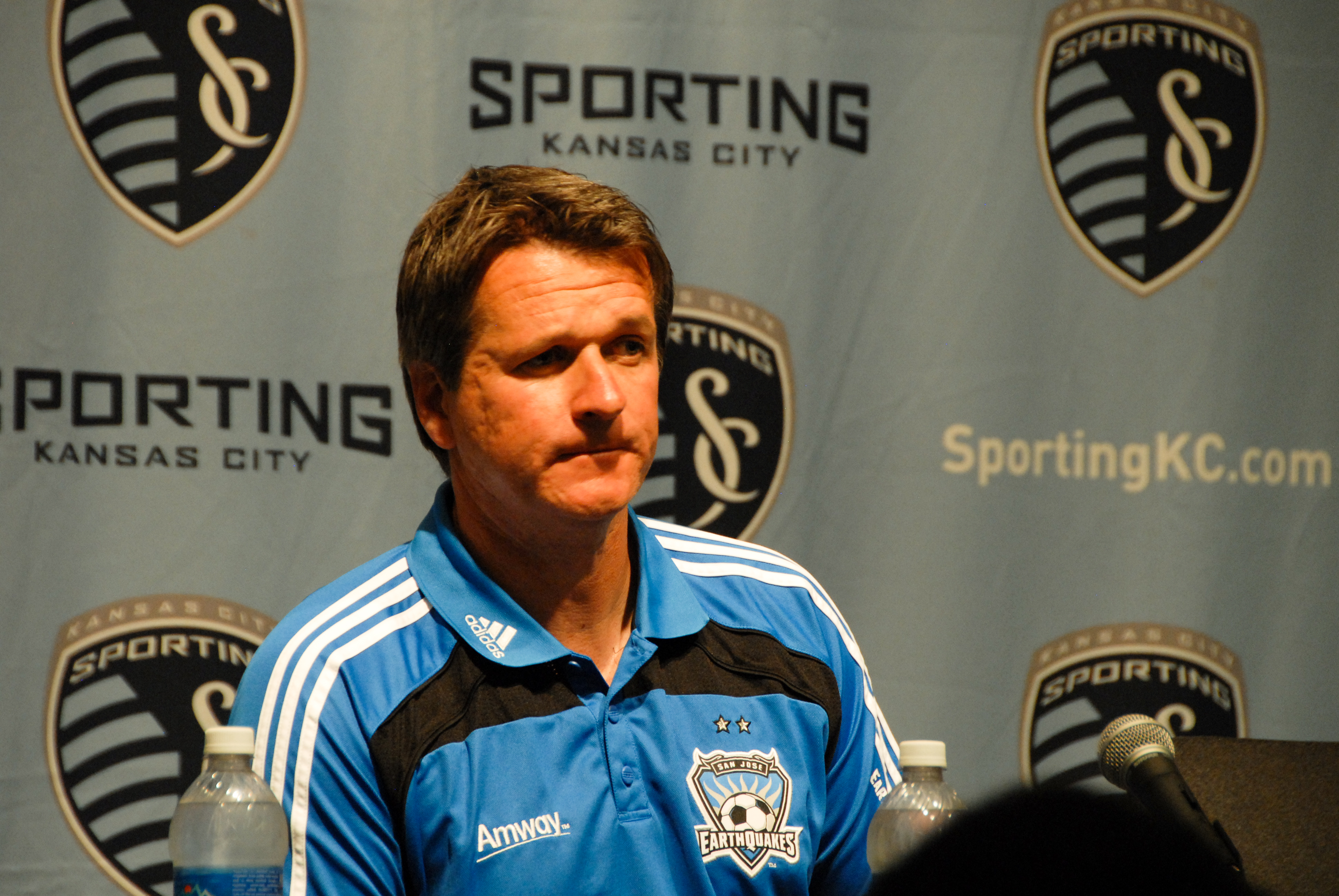 Frank Yallop, head coach of San Jose Earthquakes Sporting KC v San Jose Earthquakes @ LIVESTRONG Sporting Park